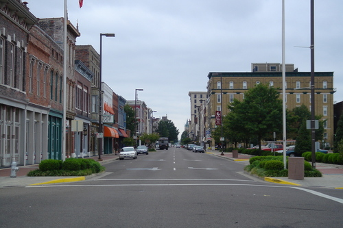 Broadway in Paducah